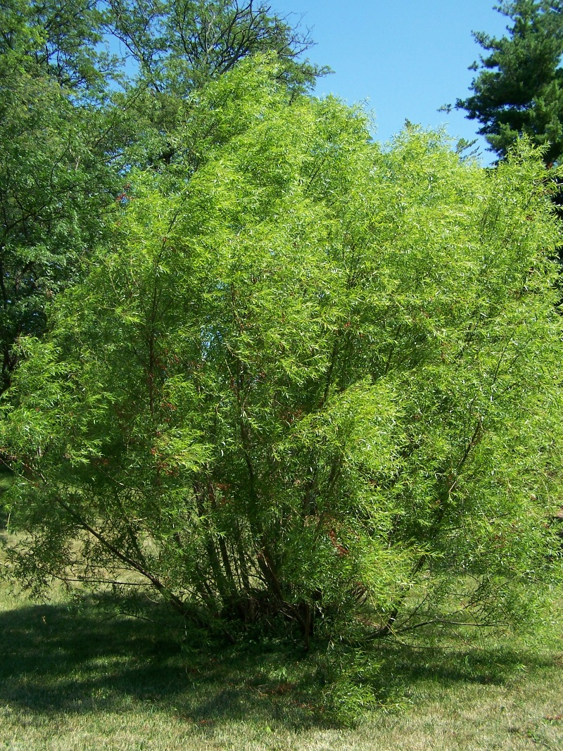 Black Willow, Salix nigra. Morton Arboretum accession 180-88-3. This specimen has been vetted by a certified arborist at the arboreum.